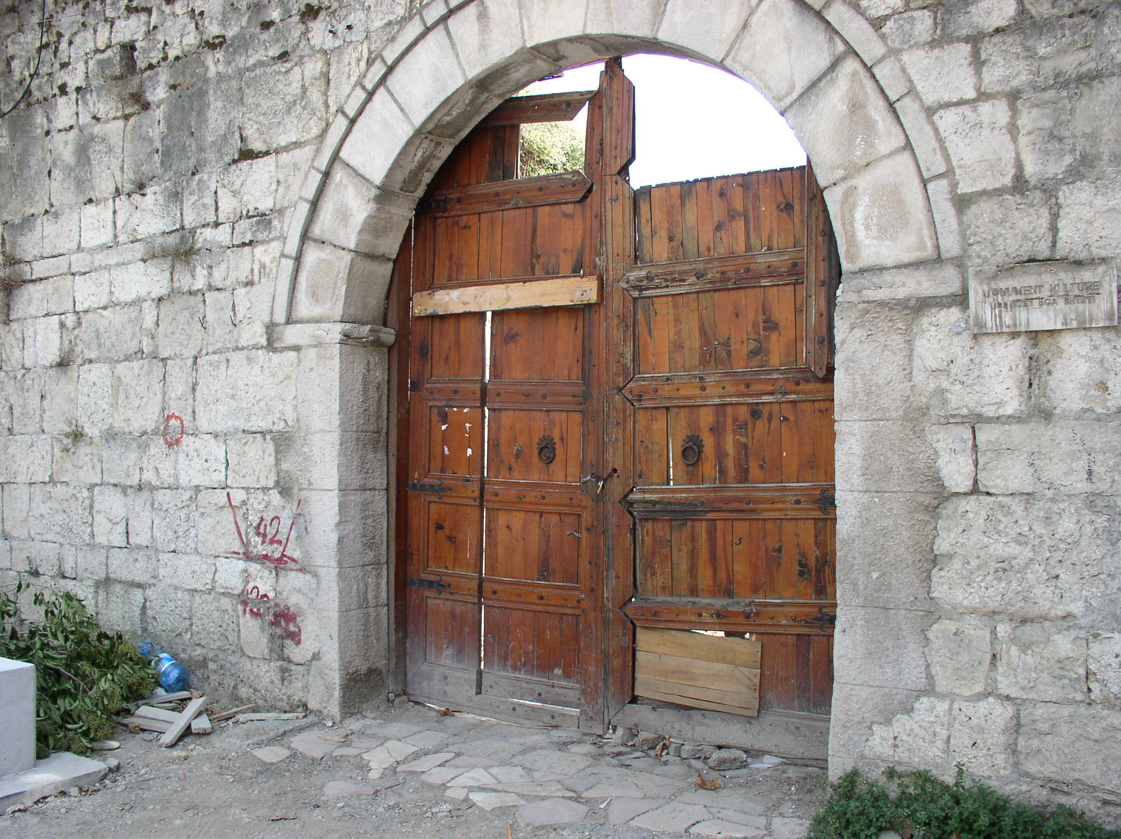 Entrance to the Toptani family house in Tirana